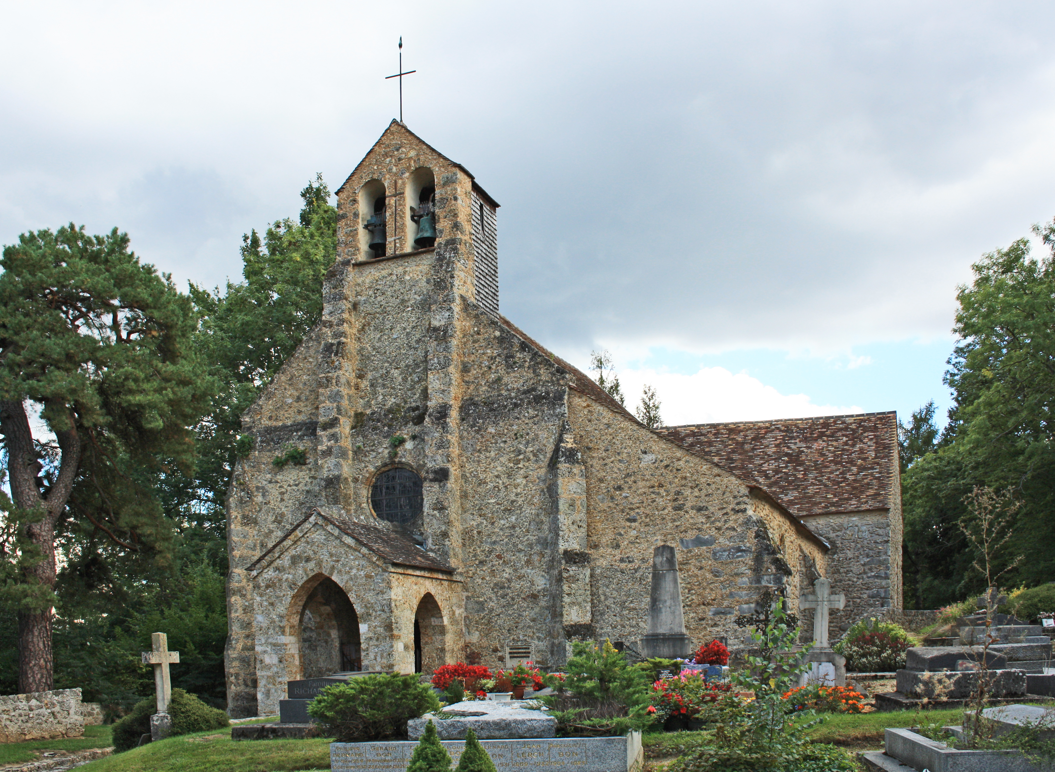 Church of Saint-Lambert-des-Bois, France.